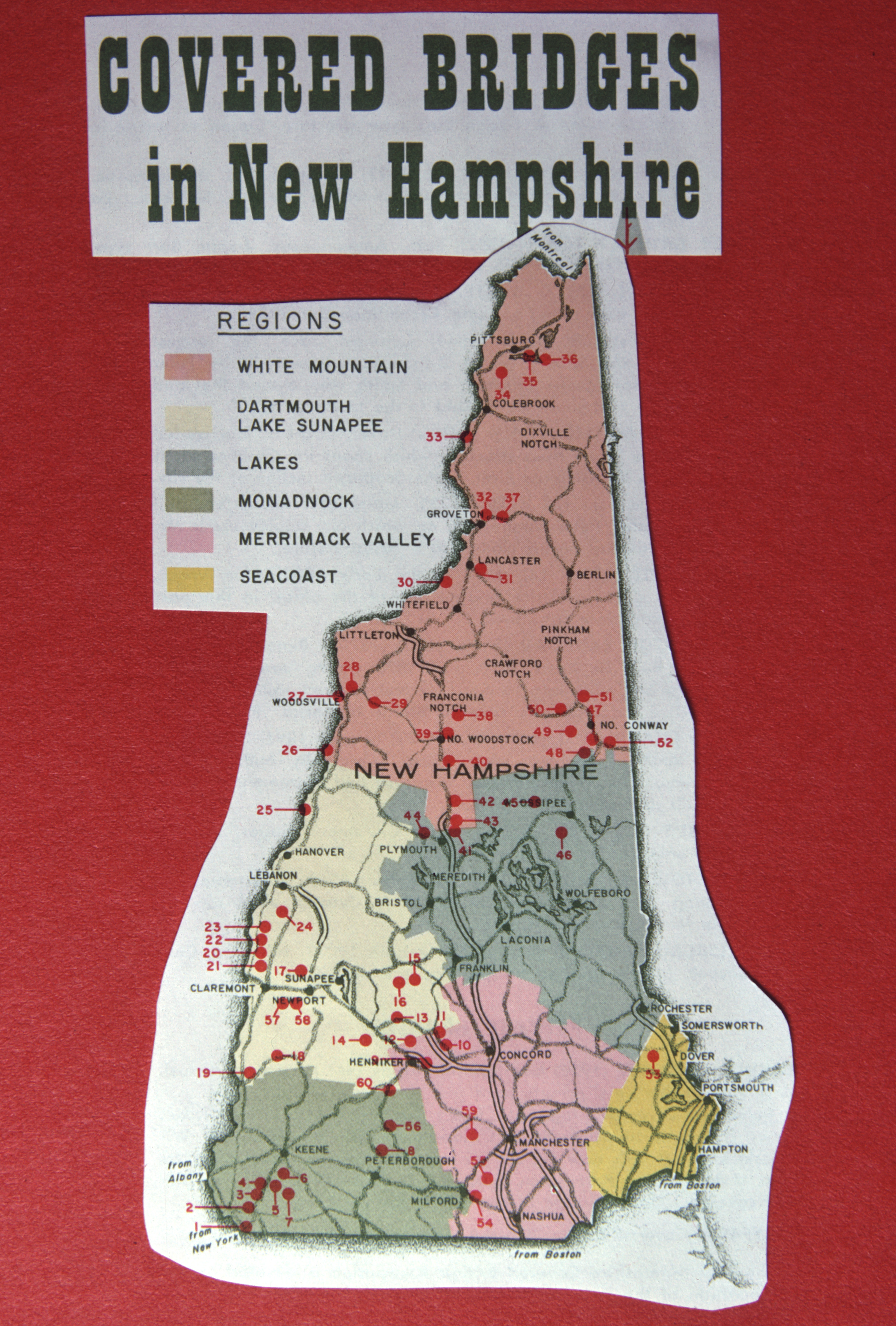 A diagram showing the numbers and locations of covered bridges tracked in 1967.